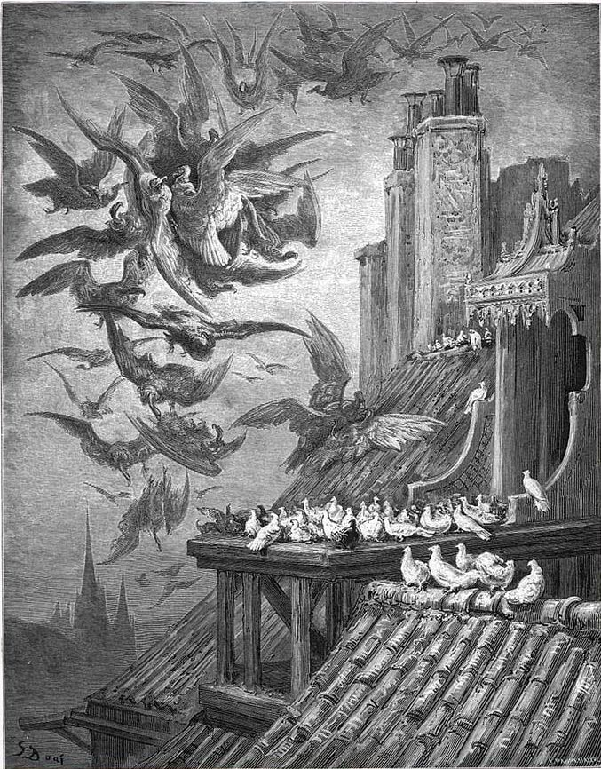 Gustave Doré, an illustration of Jean de la Fonataine's fable Les vautours et les pigeons (VII.8) published in 1880